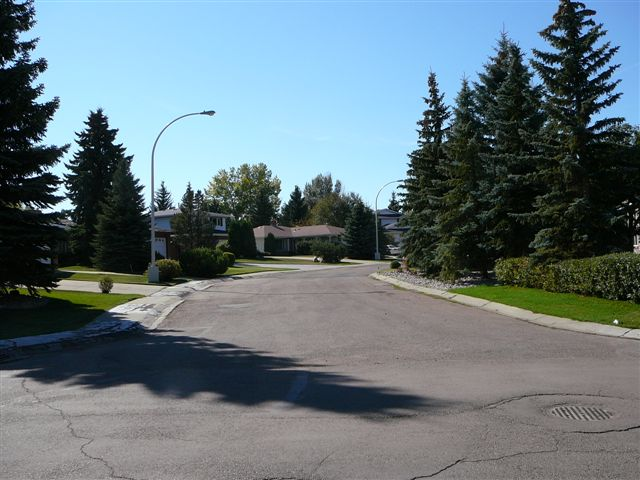 I took this picture myself on September 15, 2007